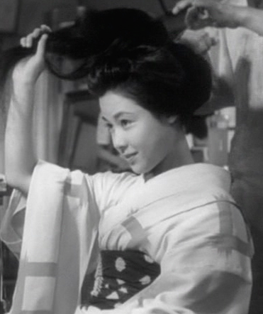 Ayako Wakao, a Japanese actress